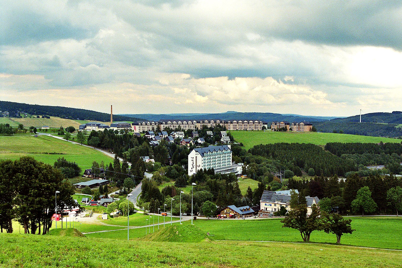 New city